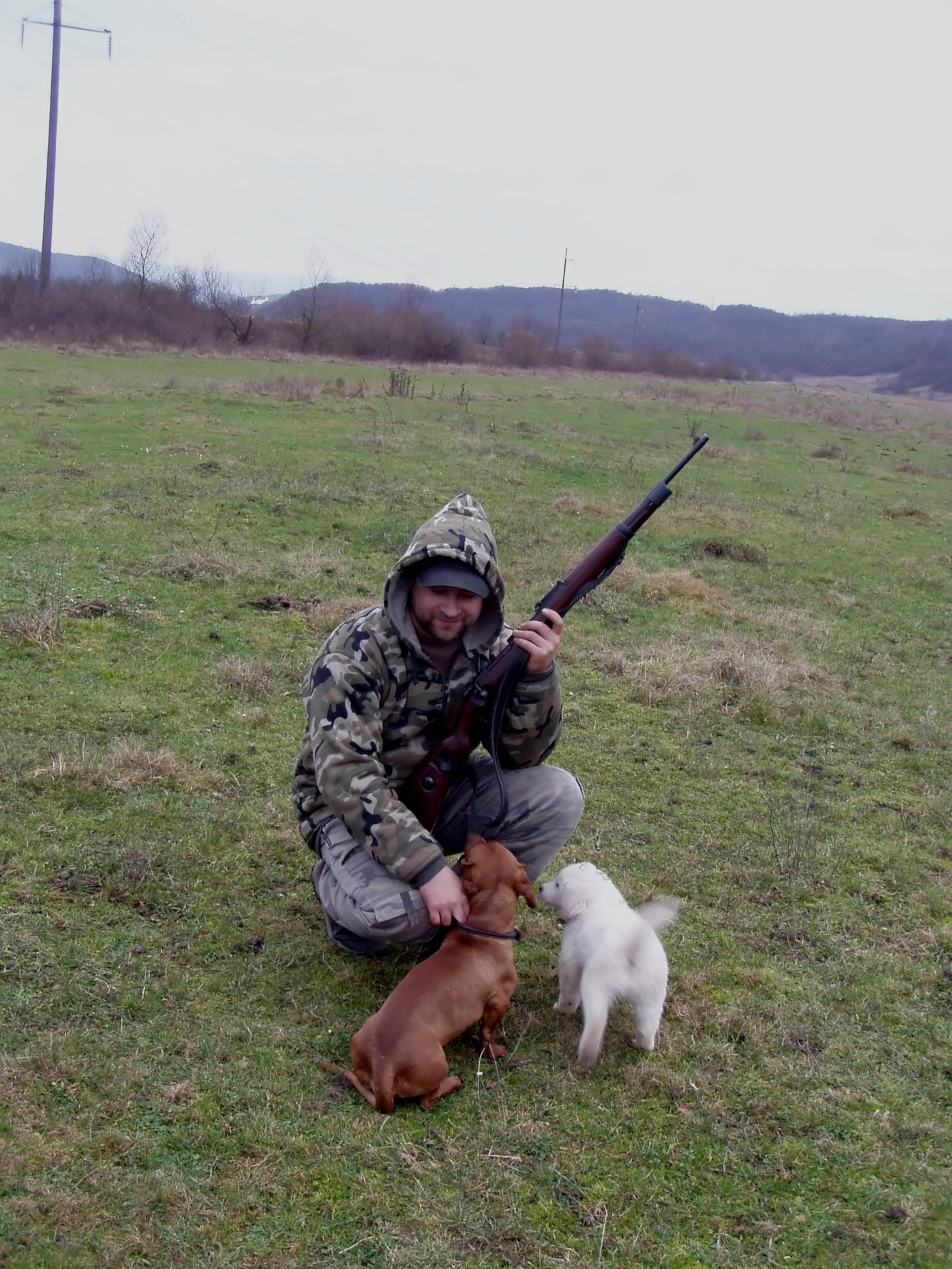 Hunting in Zakarpattia Oblast (Transcarpathia) with a carbine Mauser 98k